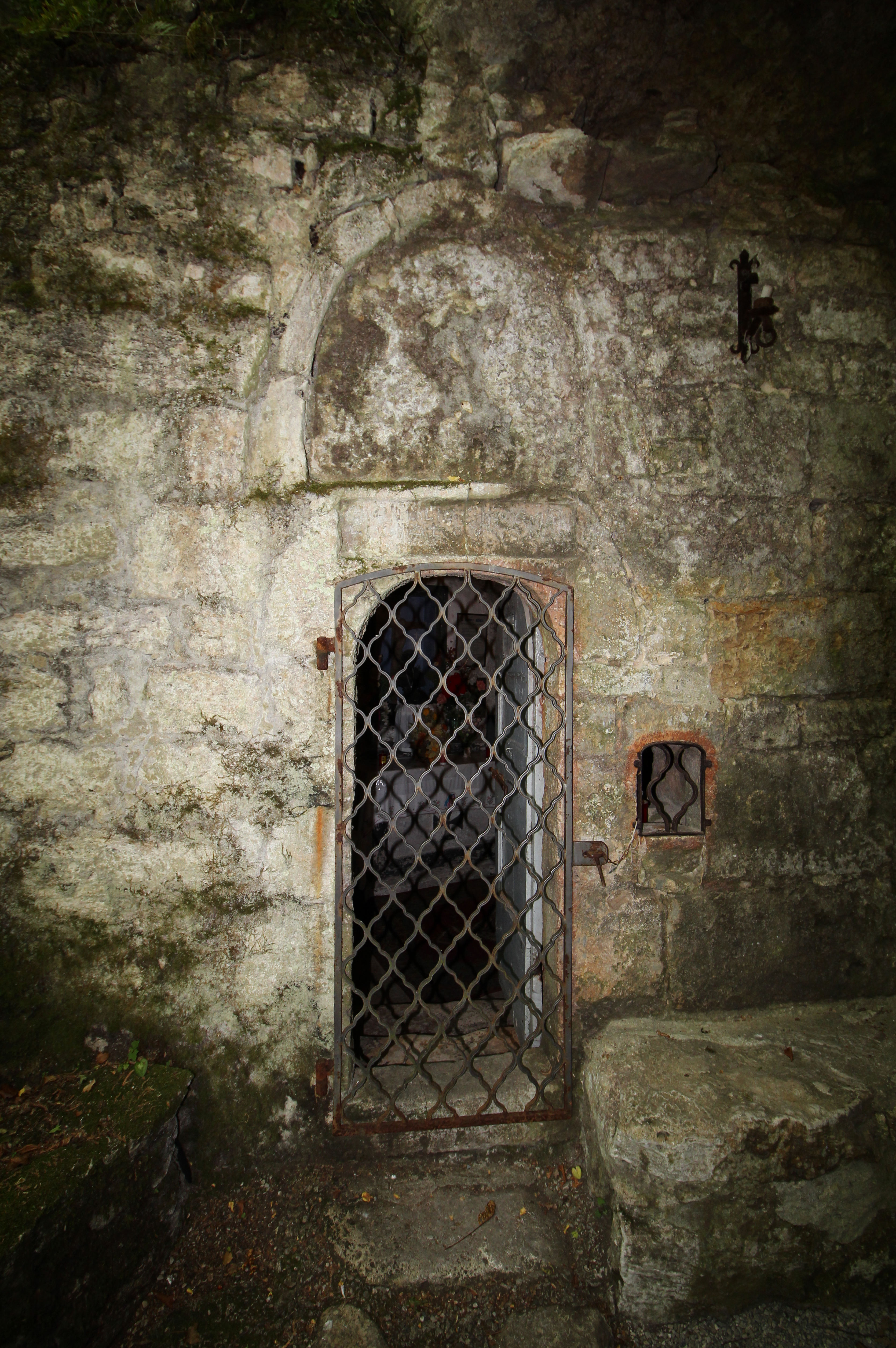 Oratory Grotta di San Filippo Benizi, Bagni San Filippo, hamlet of Castiglione d’Orcia, Province of Siena, Tuscany, Italy